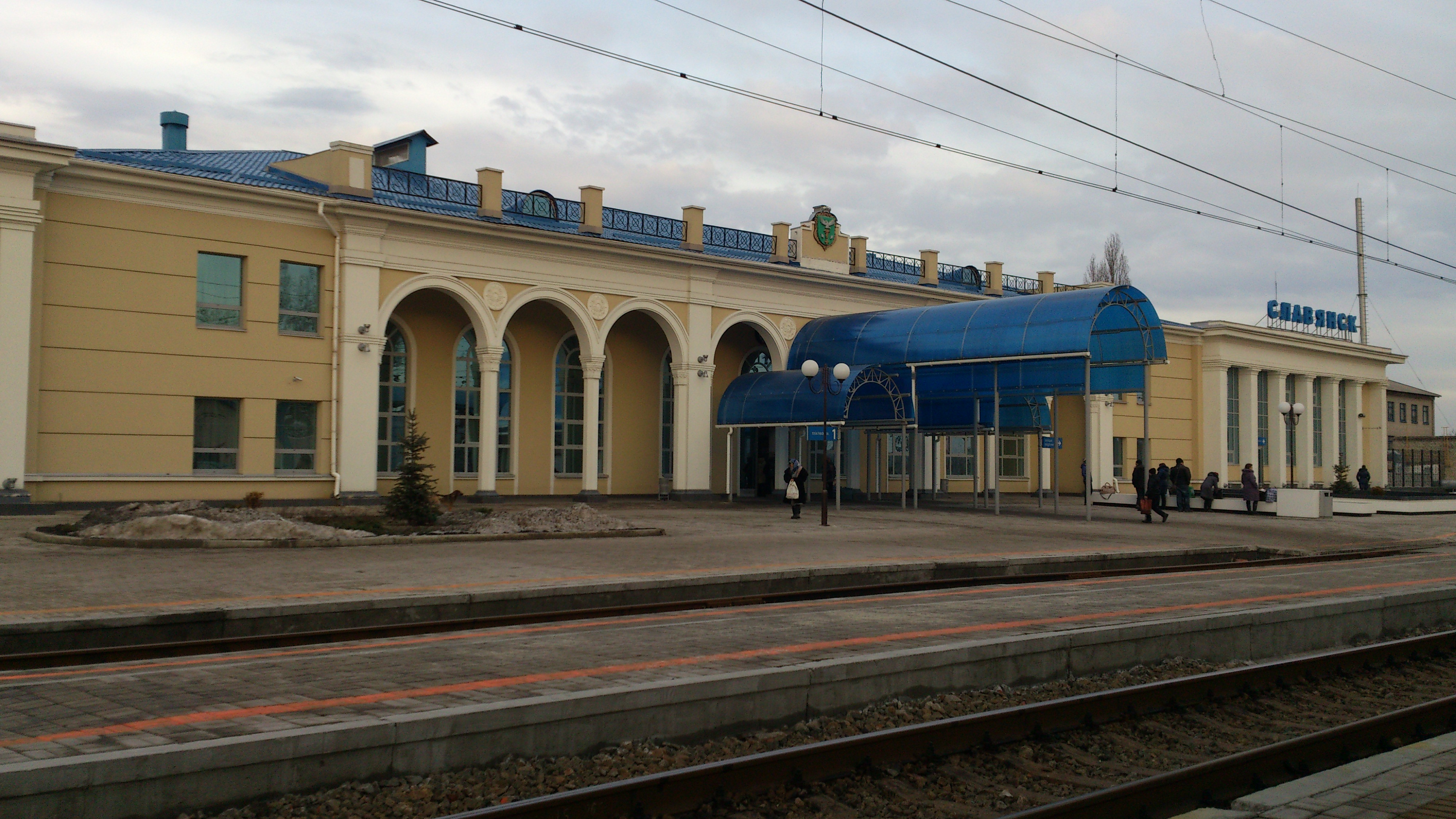 Sloviansk Railway Station in Sloviansk, Donetsk Oblast Ukraine